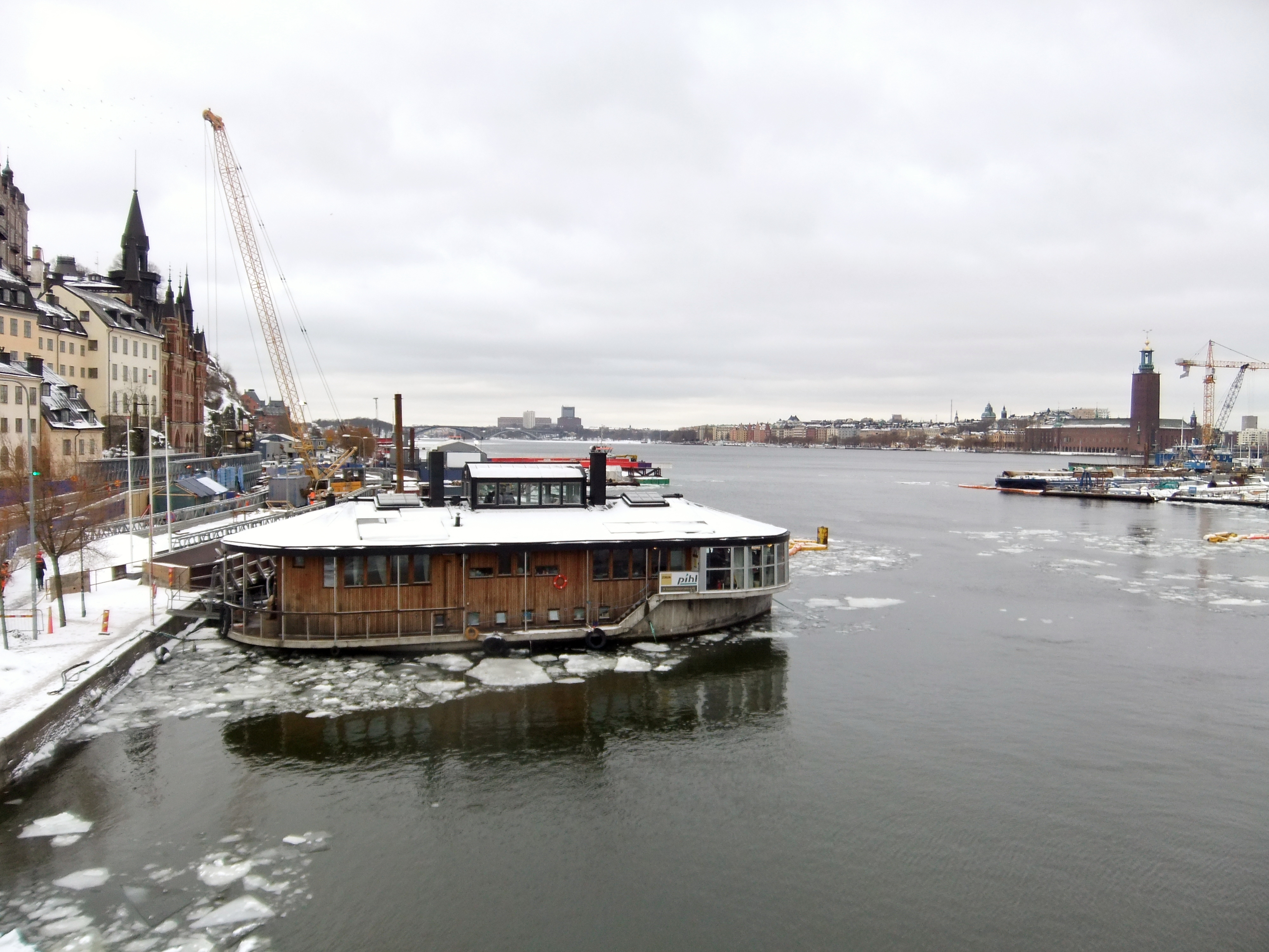 Concrete boat in Stockholm